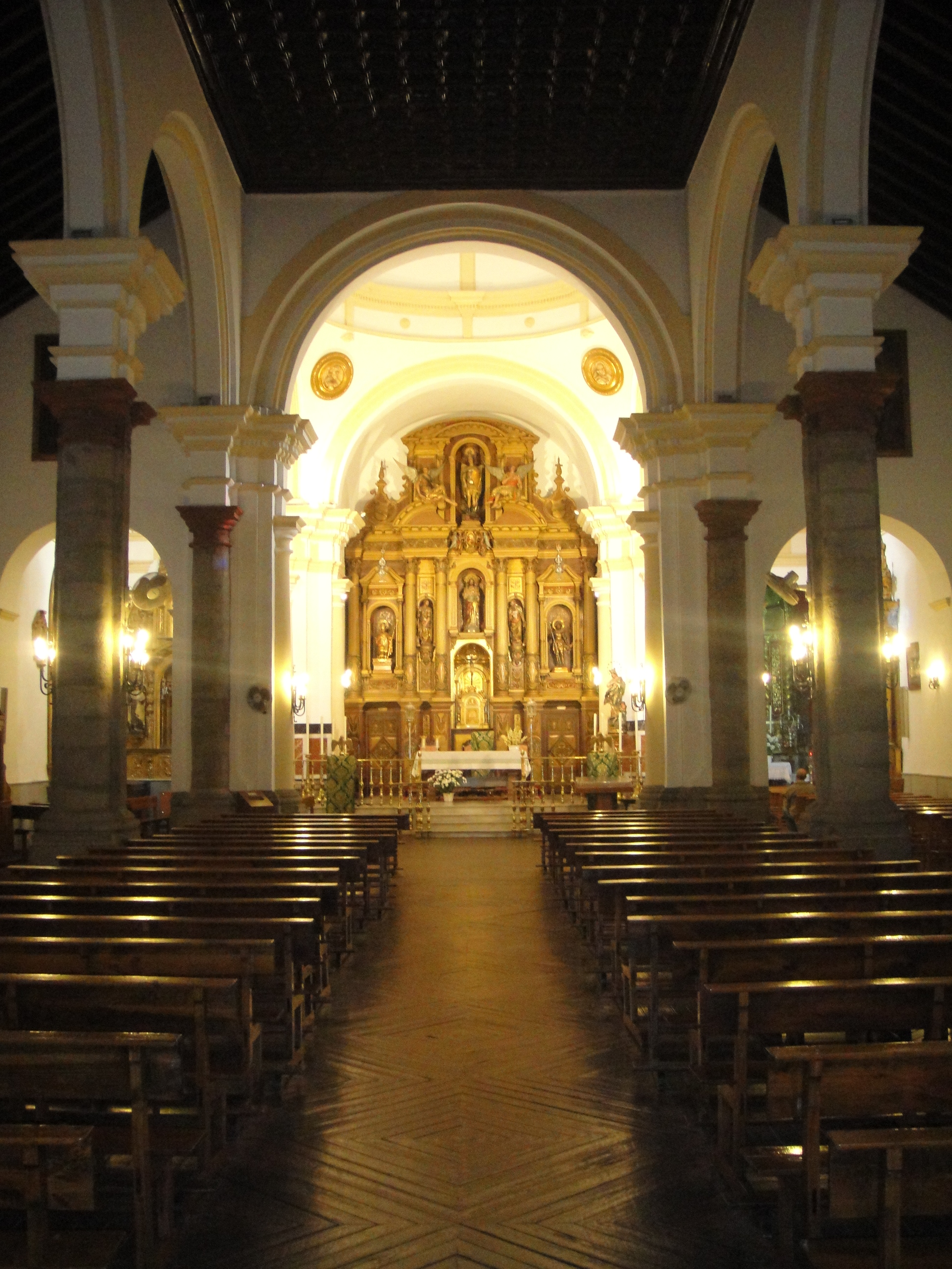 Church of St. Michael. Villanueva de Córdoba. (Spain).